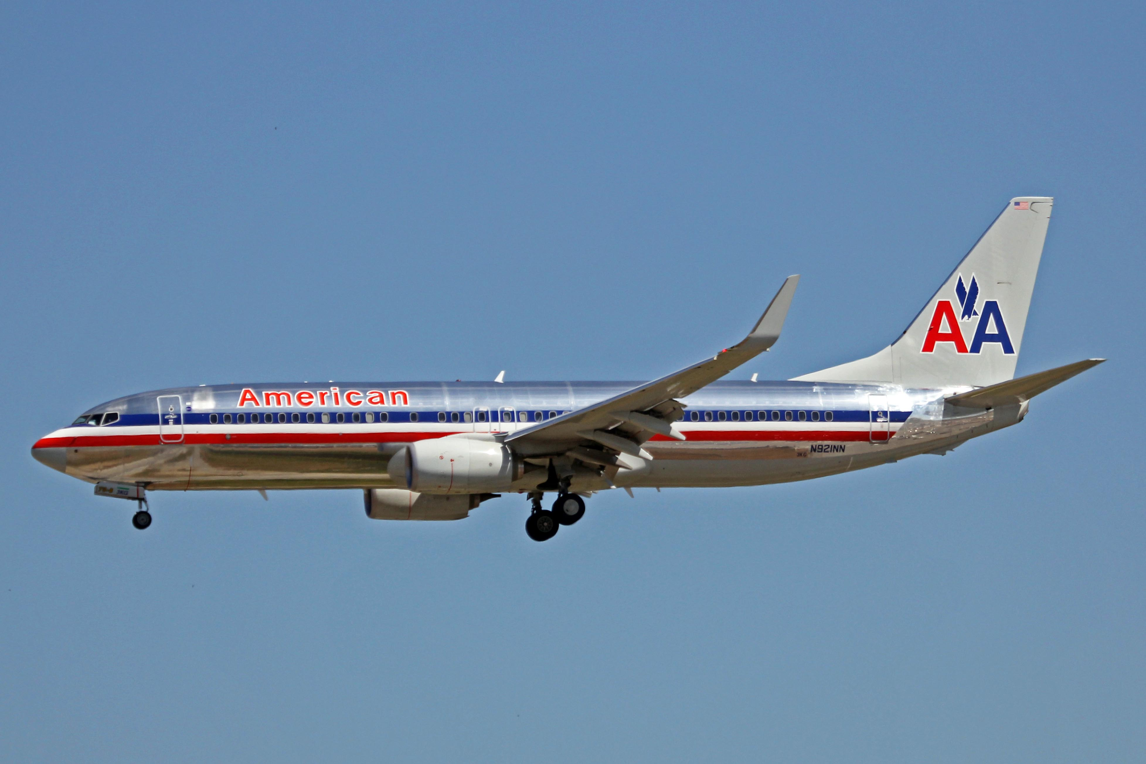 This aircraft was delivered new to American Airlines on 28-Mar-13 and was the last to be delivered in the 'old' c/scheme.